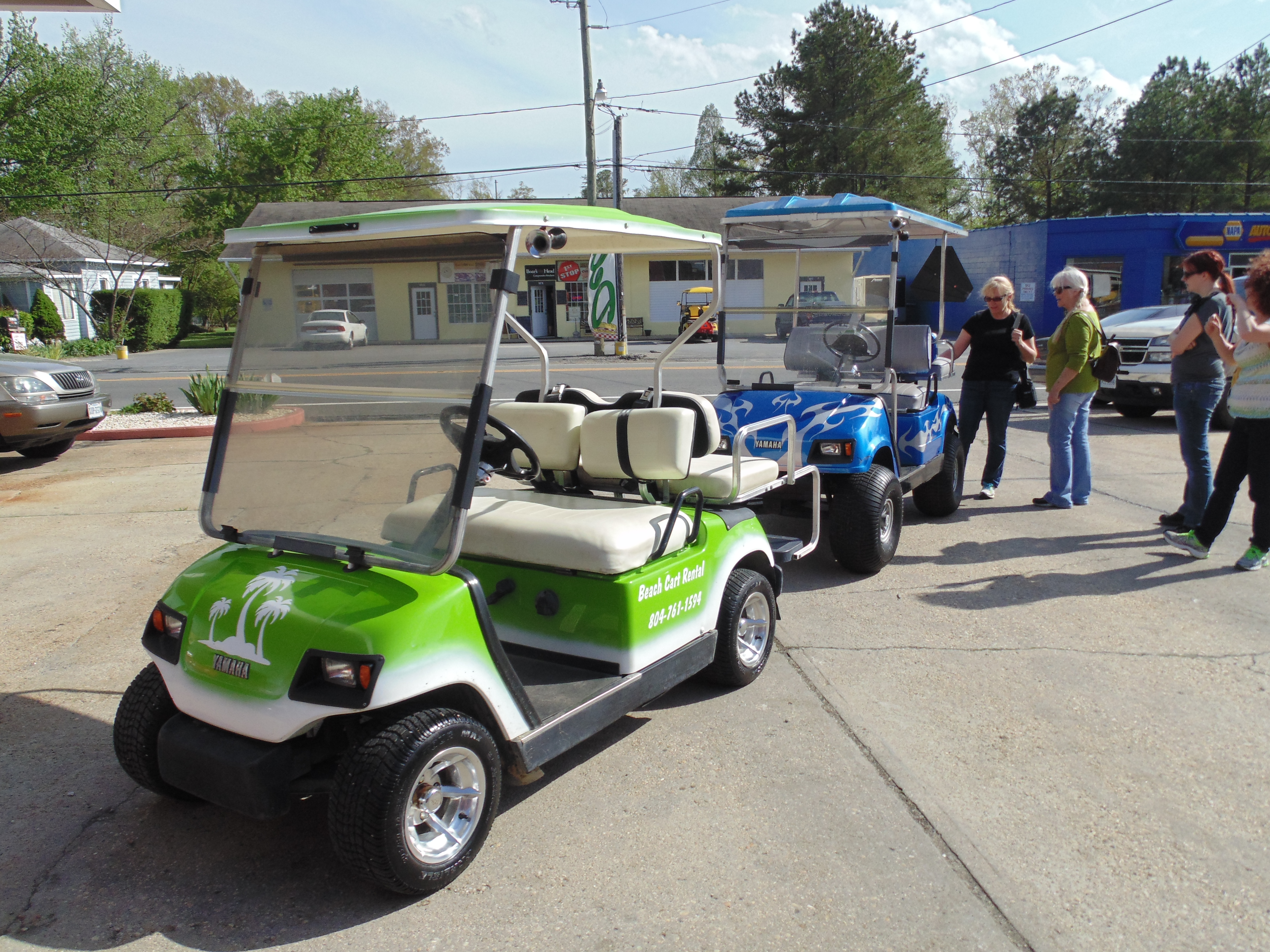 Photo by Linda Cole